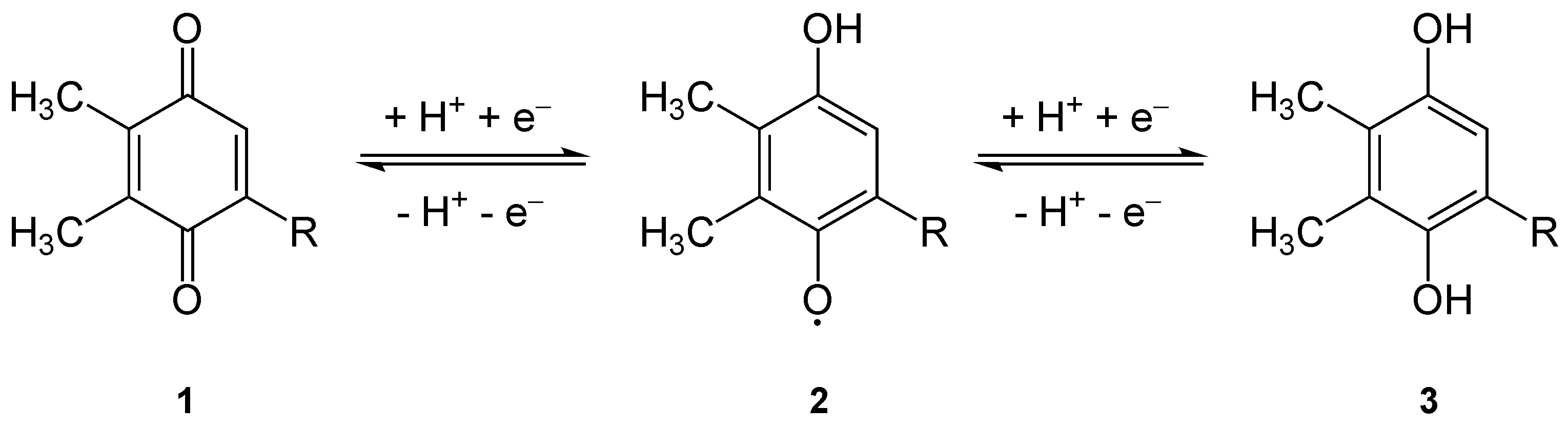 Reduktion of Plastoquinon to Plastoquinol